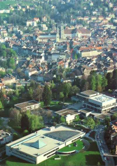 St. Gallen University and the city, St. Gallen, Switzerland